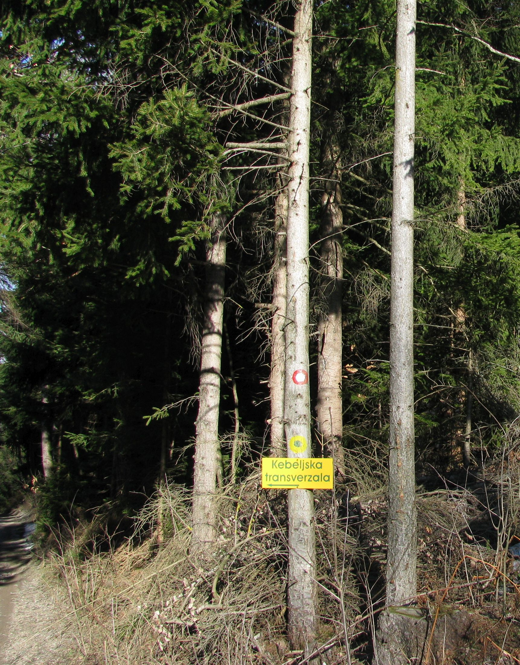 Kebelj Long-Distance Trail, Pohorje (northwestern Slovenia).